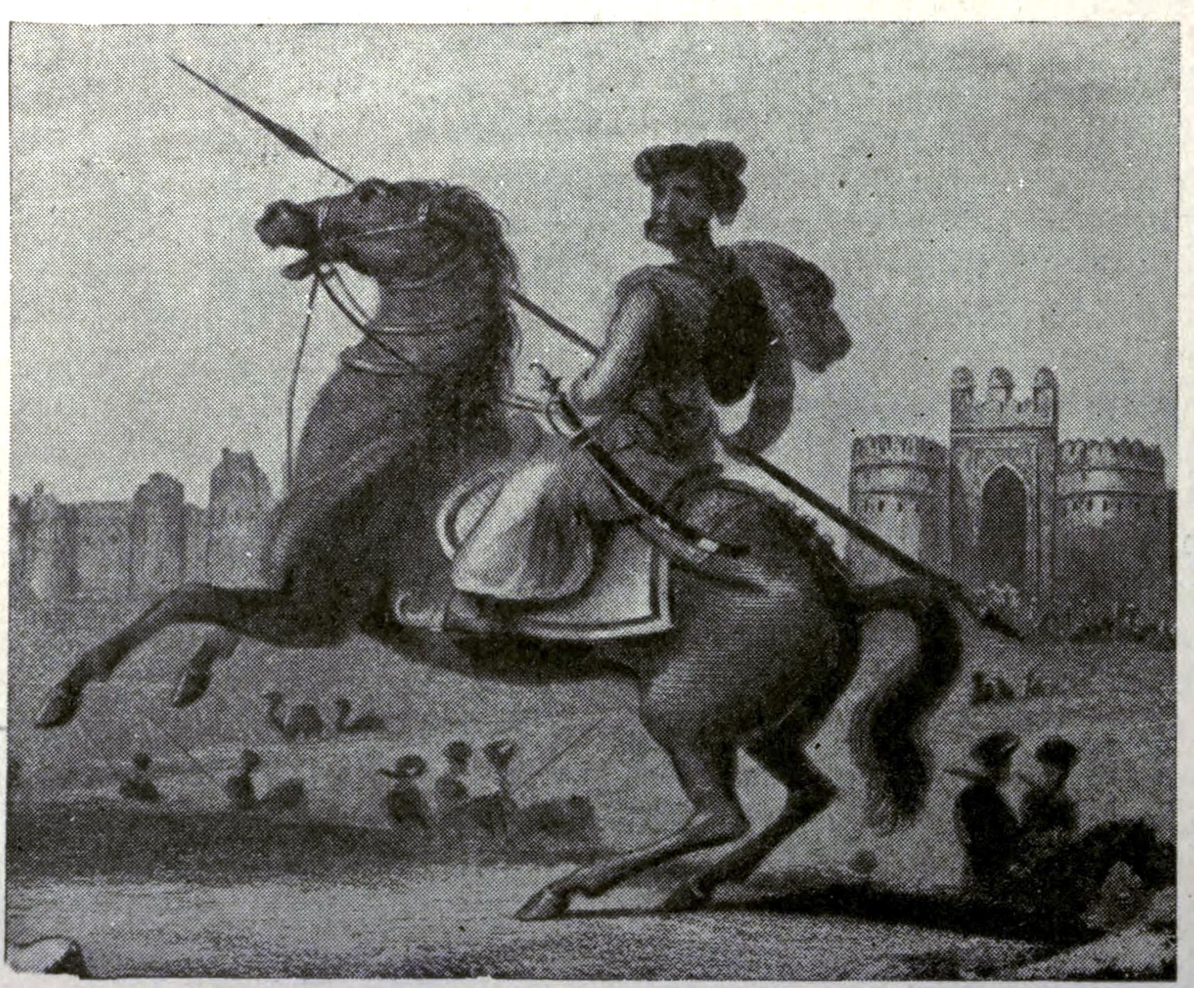 The Book of history; a history of all nations from the earliest times to the present, with over 8,000 illus. With an introd. by Viscount Bryce, contributing authors, W.M. Flinders Petrie and many other specialists by Bryce, James, 1838-1922; Petrie, W. M. Flinders (William Matthew Flinders), Sir, 1853-1942 Published [1915] Topics World history, genealogy SHOW MORE v. 1. Man and the universe. Japan.--v. 2. The Far East.--v. 3. Islands of the Pacific. Australasia. India.--v. 4. The Middle East. The Near East.--v. 5. The Near East. Egypt.--v. 6. The Near East.--v. 7. The Roman Empire.--v. 8. Eastern Europe to the French Revolution. Western Europe in the Middle Ages.--v. 9-10. Western Europe in the Middle ages.--v. 11. French Revolution and Napoleonic era.--v. 12. Europe in the nineteenth century.--v. 13. European powers today. The British Empire. America before Columbus.--v. 14. South and Central America. The North and South poles. North America.--v. 15. United States. Canada. Newfoundland. The West Indies.--v. 16. The causes of the War. The events of 1914-1915 including summary.--v. 17. The events of 1916, 1917 and summary.--v. 18. The events of 1918. The armistice peace treaties 26 Volume 3 Publisher New York Grolier Society Pages 454 Possible copyright status NOT_IN_COPYRIGHT Language English Call number AAB-4571 Digitizing sponsor MSN Book contributor Robarts - University of Toronto Collection robarts; toronto Full catalog record MARCXML [Open Library icon]This book has an editable web page on Open Library.